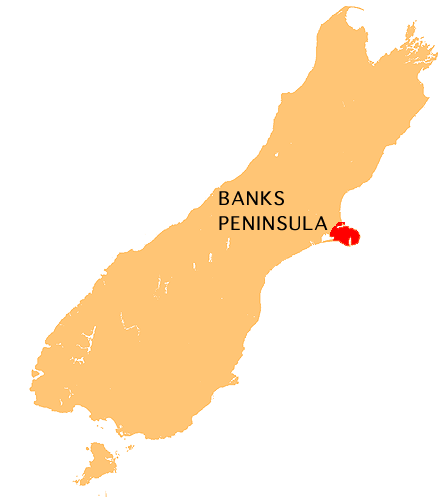 Location map of Banks Peninsula, New Zealand